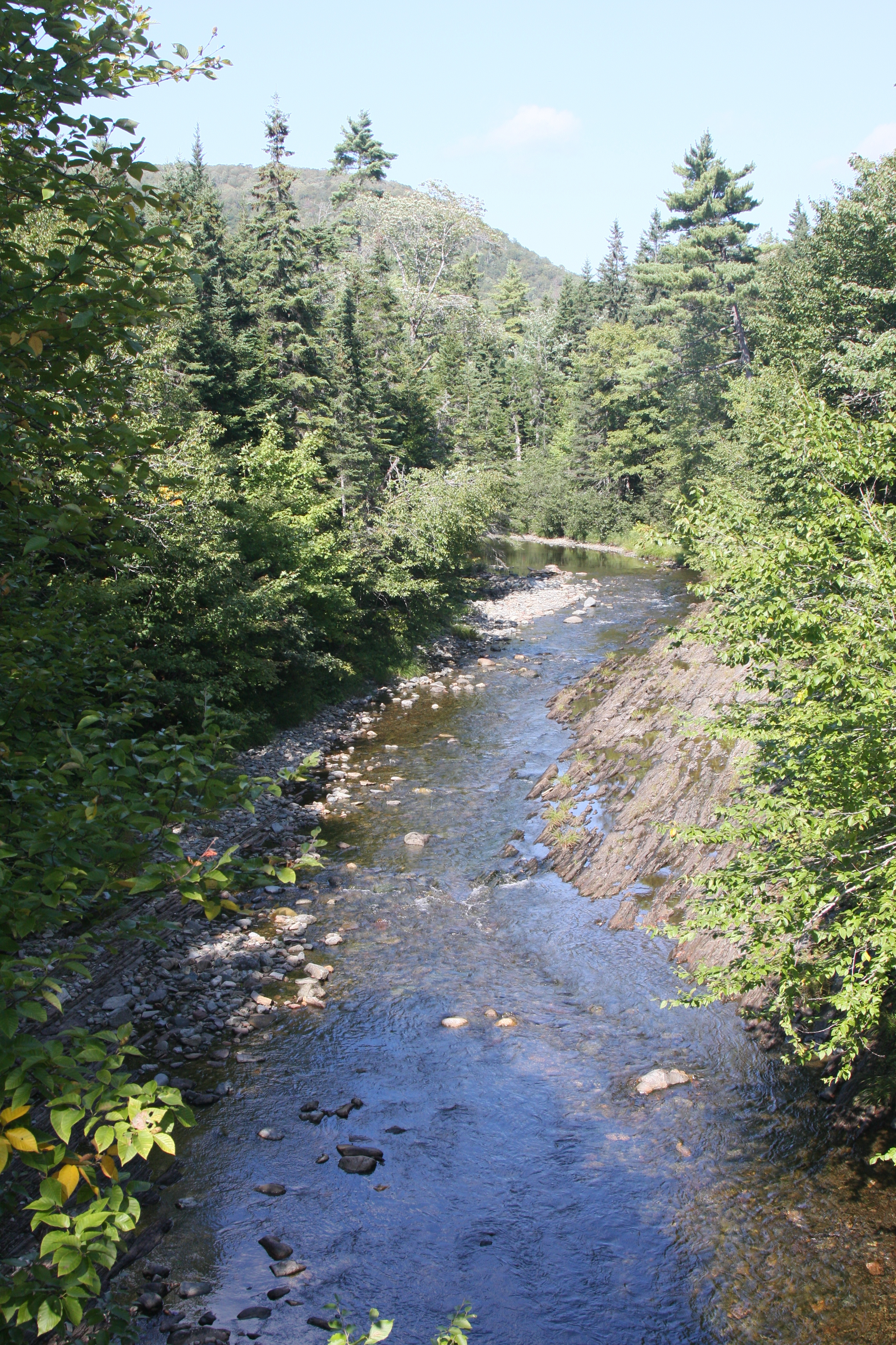 Uisge Ban Falls Provincial Park (alternative spellings 'Easach'; 'Bàn' or 'Bahn') is a provincial park near New Glen, in the Canadian province of Nova Scotia on Cape Breton Island, 14.5 kilometres (9 miles) north of Baddeck. The civic address of the park entrance is 715 North Branch Road, Baddeck Forks, Nova Scotia, Canada B0E 1B0 The name Uisge Ban comes from the Gaelic meaning “white water”. This picnic and hiking park is managed by the provincial Department of Natural Resources and contains Easach Ban Falls. The 16 m (50 ft.) high waterfall is accessible by trail. The Trails The Falls Trail is approximately 3.0 kilometres (1.8 miles) in length and requires about one hour to complete. The trail passes through a field then follows Falls Brook upstream through a mixed forest and then a climax hardwood forest composed largely of maple, birch, and beech. The deep stream valley narrows dramatically in the vicinity of Easach Ban Waterfall. At the falls, the sheer walls of the gorge tower 150 metres (500 feet) on either side. The original trail was developed with assistance from the Nova Scotia Forest Technicians Association. Recent improvements were undertaken by Stora Enso and the Nova Scotia Department of Natural Resources. The River Trail Another trail in the park, The River Trail proceeds north from Falls Brook. It is about 3.0 kilometres (1.8 miles) in length (return) and requires about one hour to travel. Following along the banks of the North Branch Baddeck River, the trail winds through a climax sugar maple, yellow birch, beech forest at the foot of the river valley’s steep slope. This provincial park trail is well maintained and has interpretive signs and a map at the trail head. There are pit toilets and picnic tables in the parking area.[